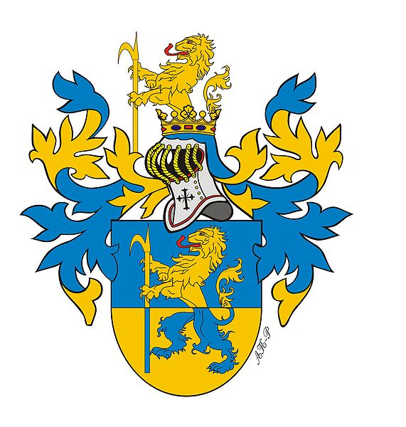 Coat of Arms, Hauke family